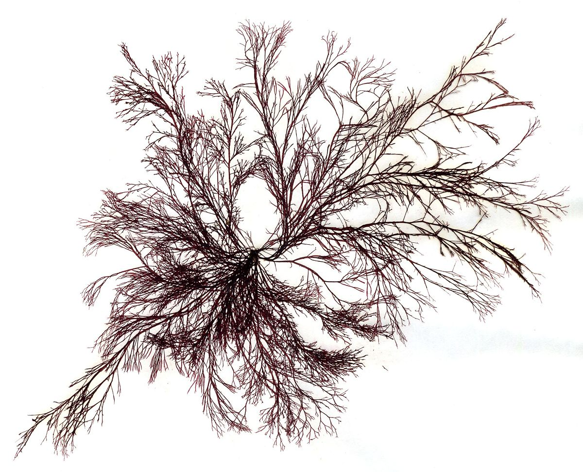 Ceramium virgatum Roth (Syn.Ceramium rubrum (Huds.) C.Ag.), herbarium sheet. Collected 1985-09-10, Heligoland (Germany)